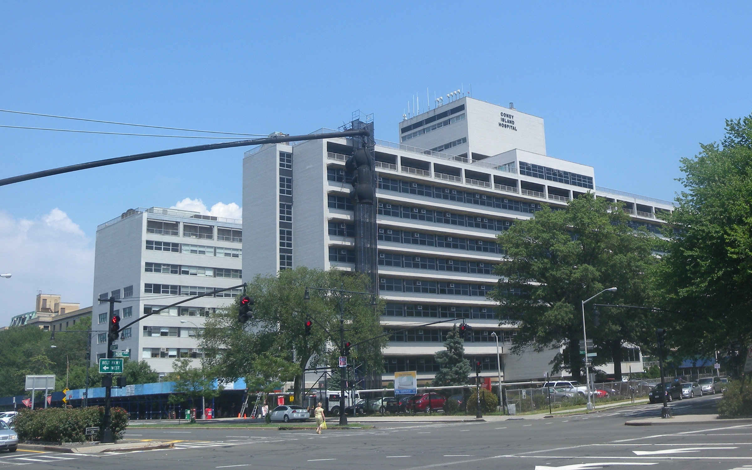 Coney Island Hospital. Looking northeast across Ocean Parkway and Shore Parkway frontage road, at hospital on a sunny afternoon.